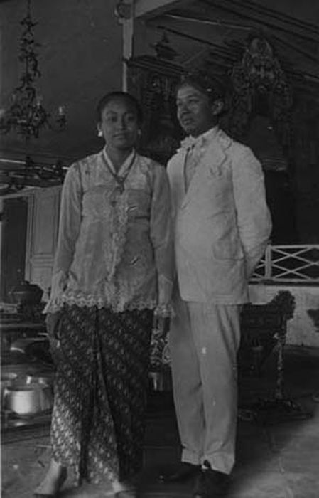 Partini and Hoesein Djajadiningrat in the palace of her father Prang Wedono (Mangku Negoro VII) at Solo